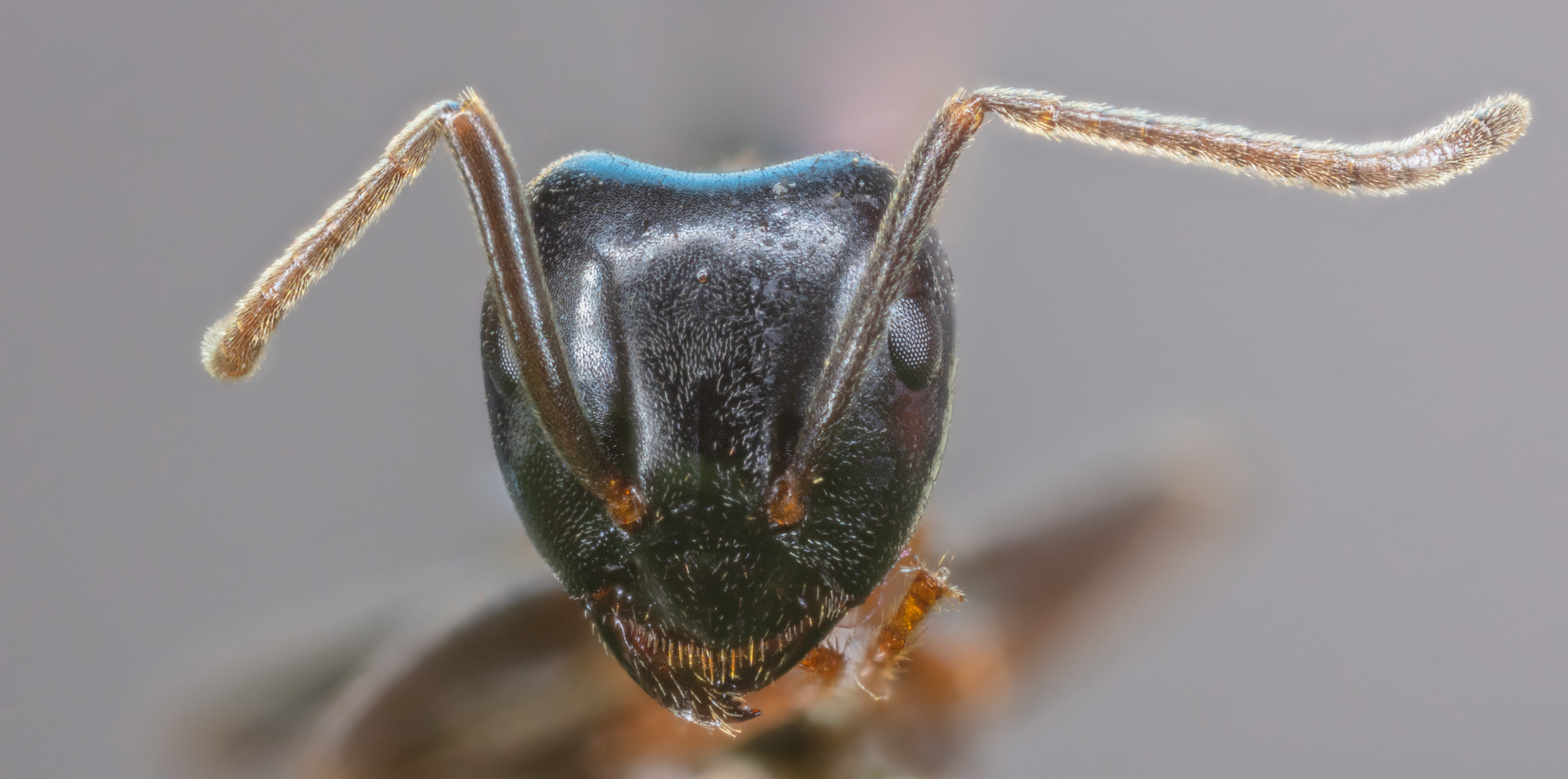 Pharaoh ant (Monomorium pharaonis), Hartelholz, Munich, Germany